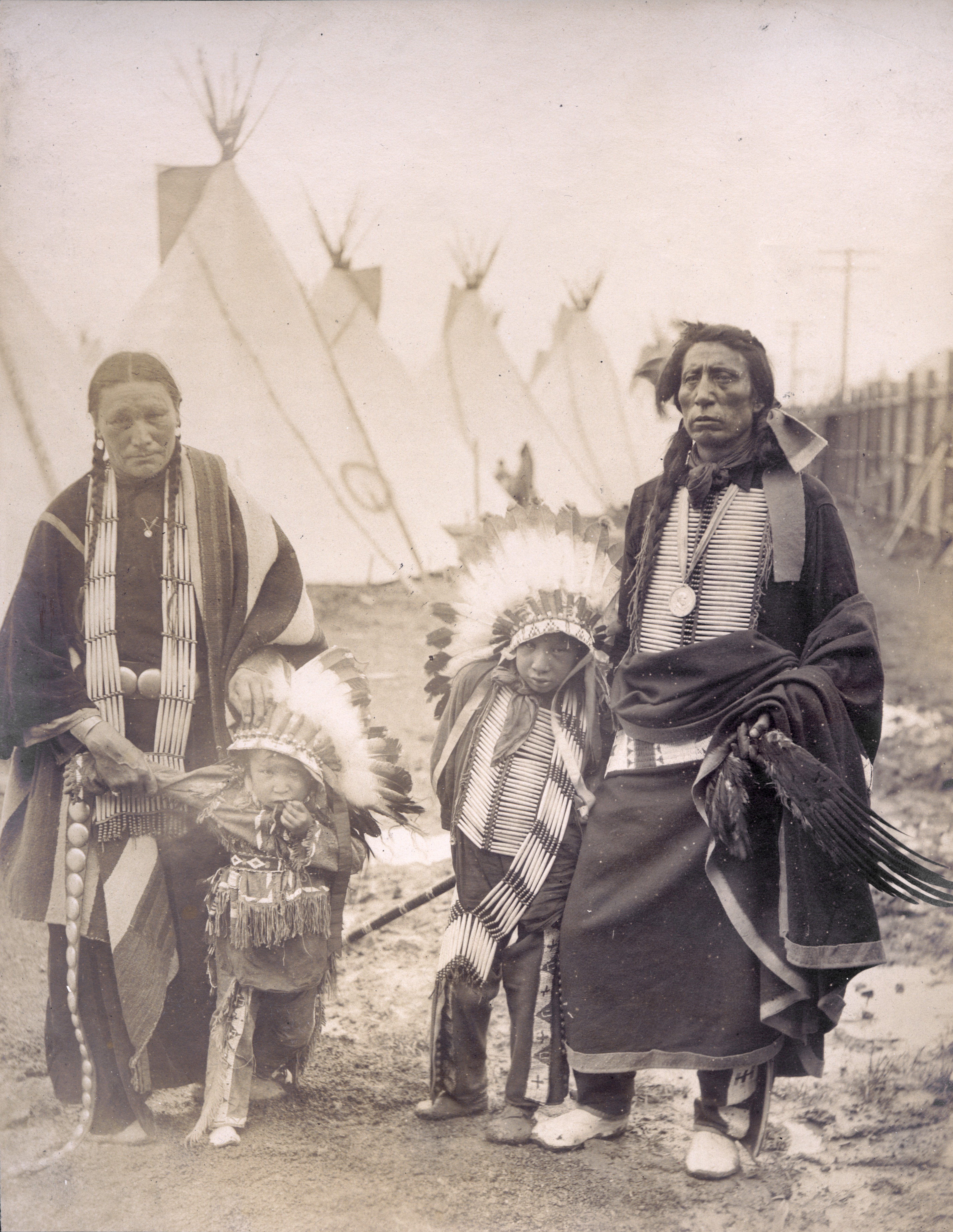 Title: "Black Tail Deer, Sioux Chief, also a policeman at Rosebud Agency." Department of Anthropology, 1904 World's Fair.